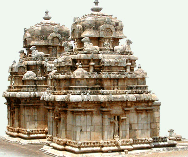 Muvar Kovil, Tamil Nadu. An example of the Chola Architecture during Parantaka Chola II c. 970 C.E. From my collection of photographs